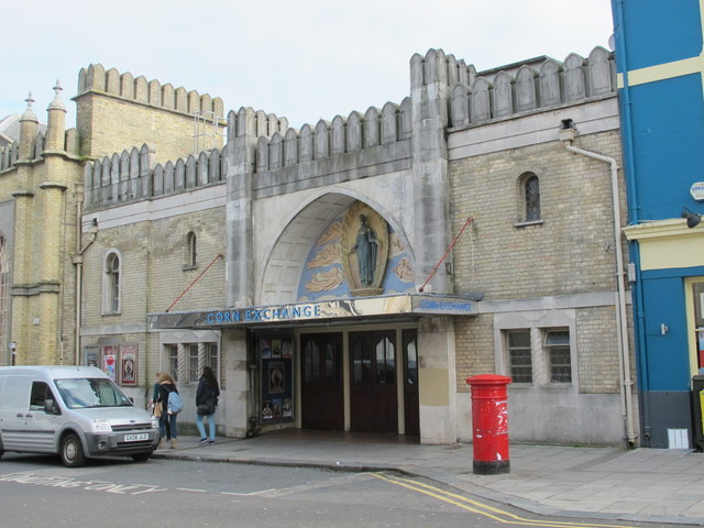 The Corn Exchange, Church Street, BN1